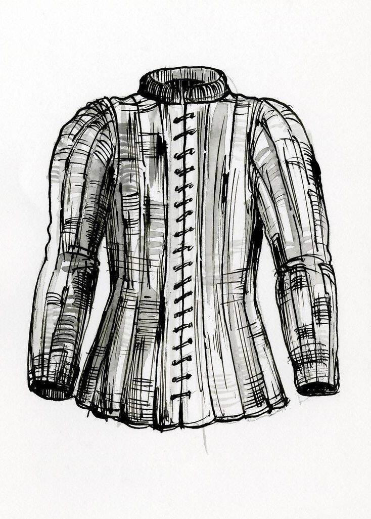 The description of the concept in this drawing is: Protective garments of cloth or leather, covering the trunk and thighs, usually stuffed or quilted. Commonly used from the 12th to the 14th century in Europe, worn either over or under metal armor or as an independent defense. They were often made of rich fabric and embroidered with heraldic devices. (AAT)